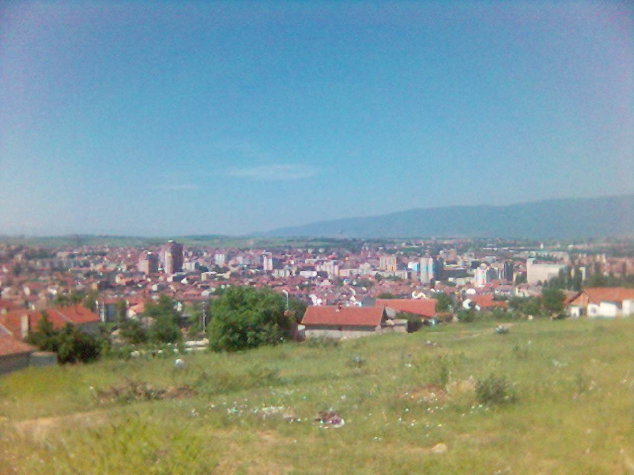 Kumanovo 2006 (2)